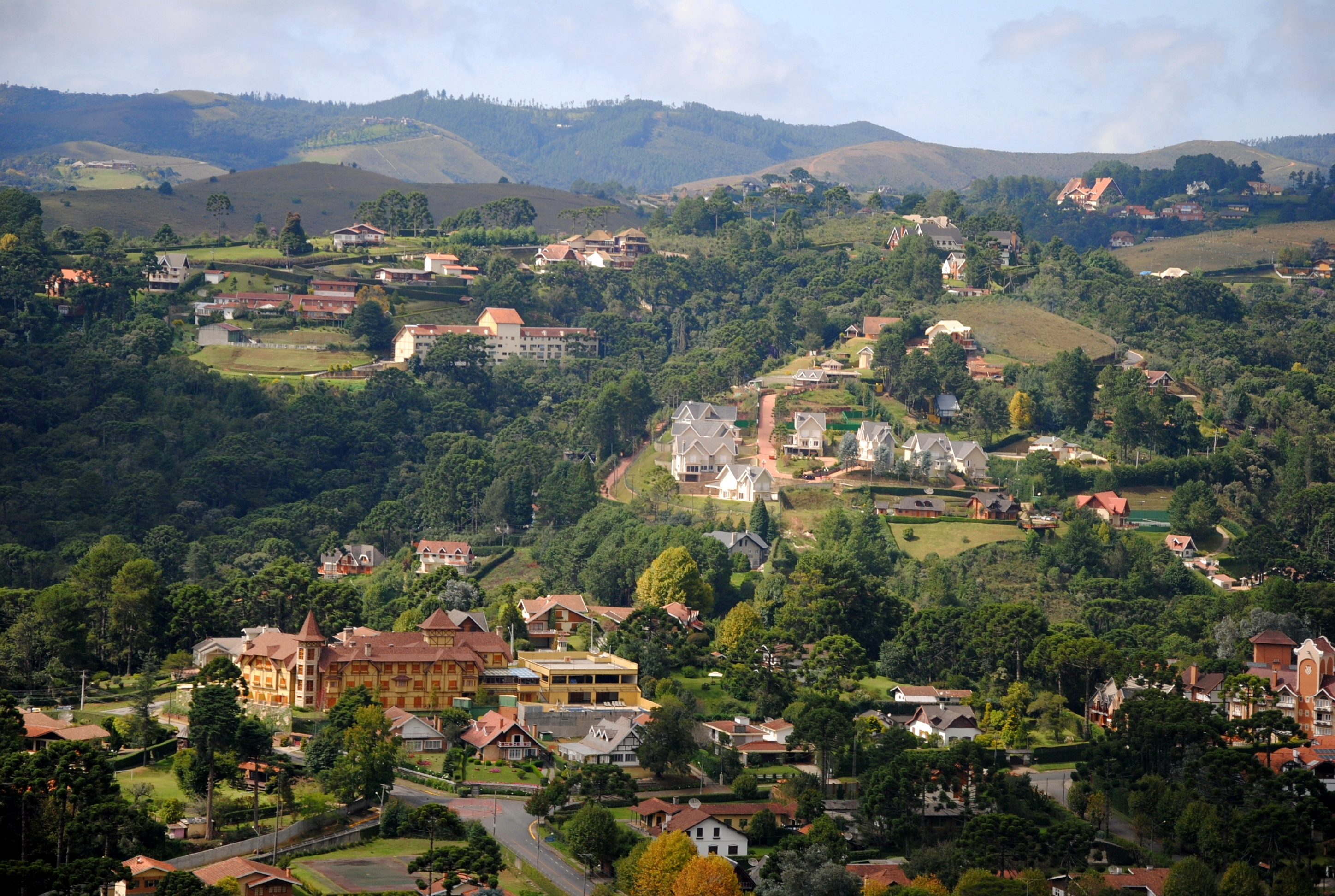 Campos do Jordão, São Paulo, Brasil.